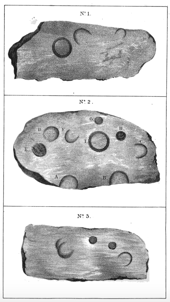 Sketch by Jabez Allies of animal markings found in sandstone in Whelpley Brook, Herefordshire (1835).